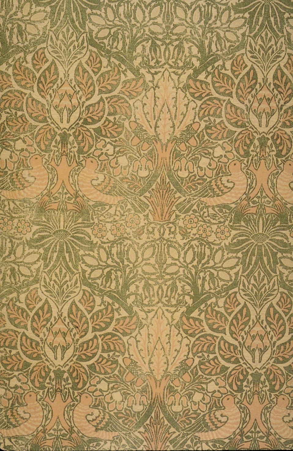 Dove and Rose jacquard-woven silk and wool doublecloth furnishing textile, designed by William Morris. (Identification from Linda Parry, ed.: William Morris, Abrams, 1996, ISBN 0-8109-4282-8, p. 272)